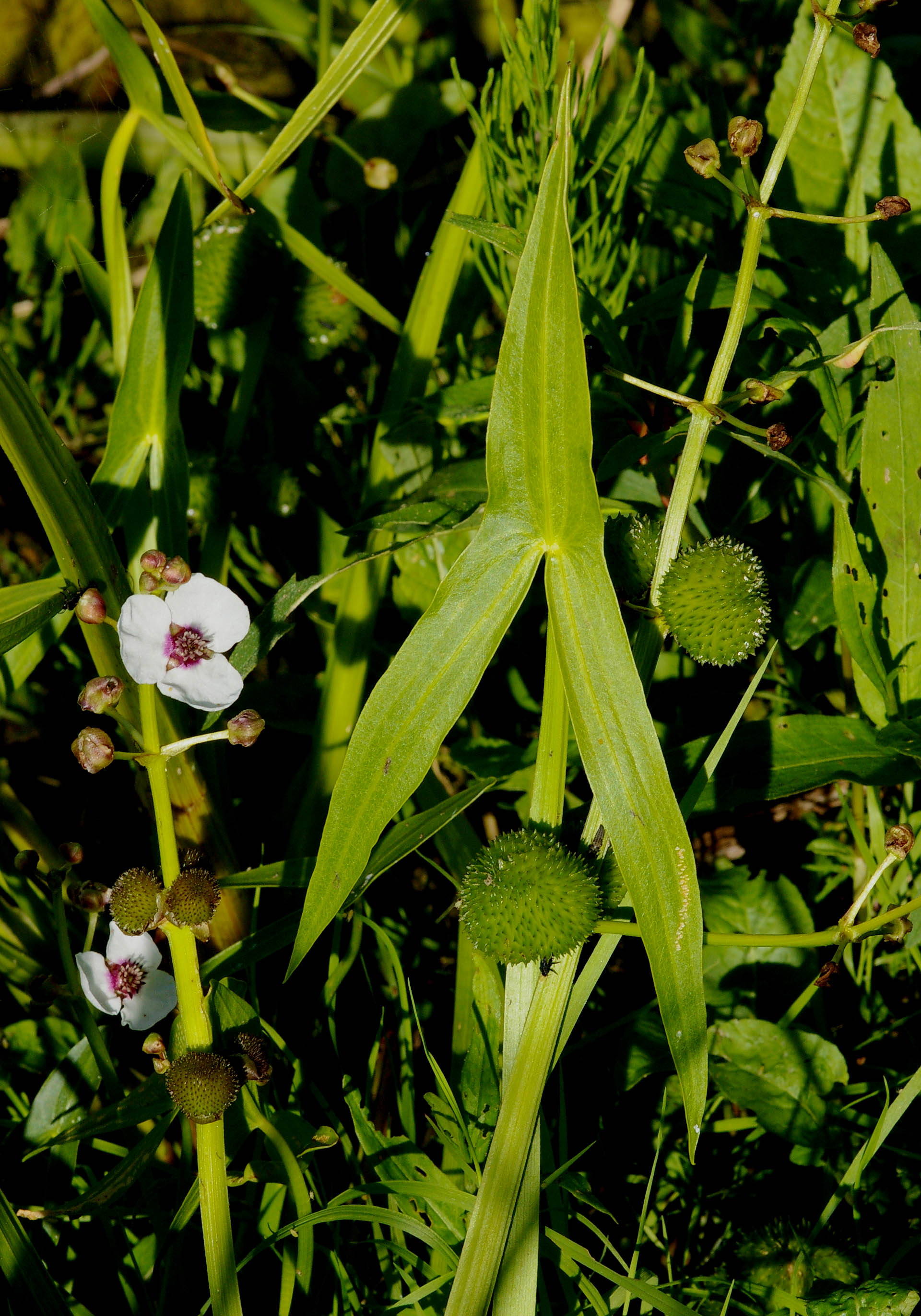 Inflorescence, leave, and fruits of the waterplant Sagittaria sagittifolia.